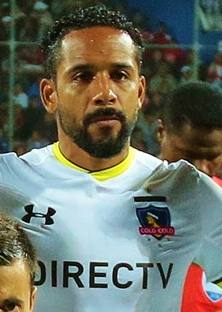 Jean Beausejour